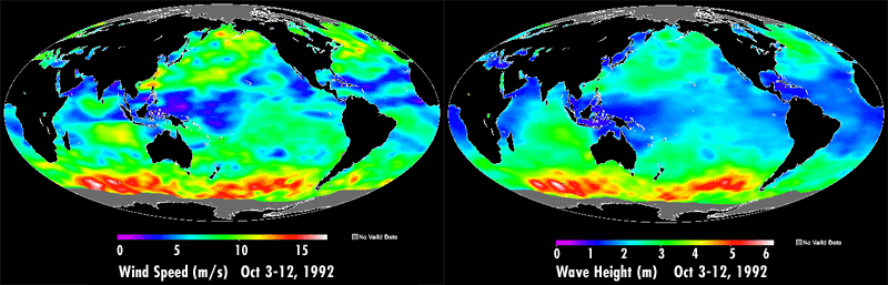 Global Average of Wave Height and Wind Speed as determined over the course of a week and a half